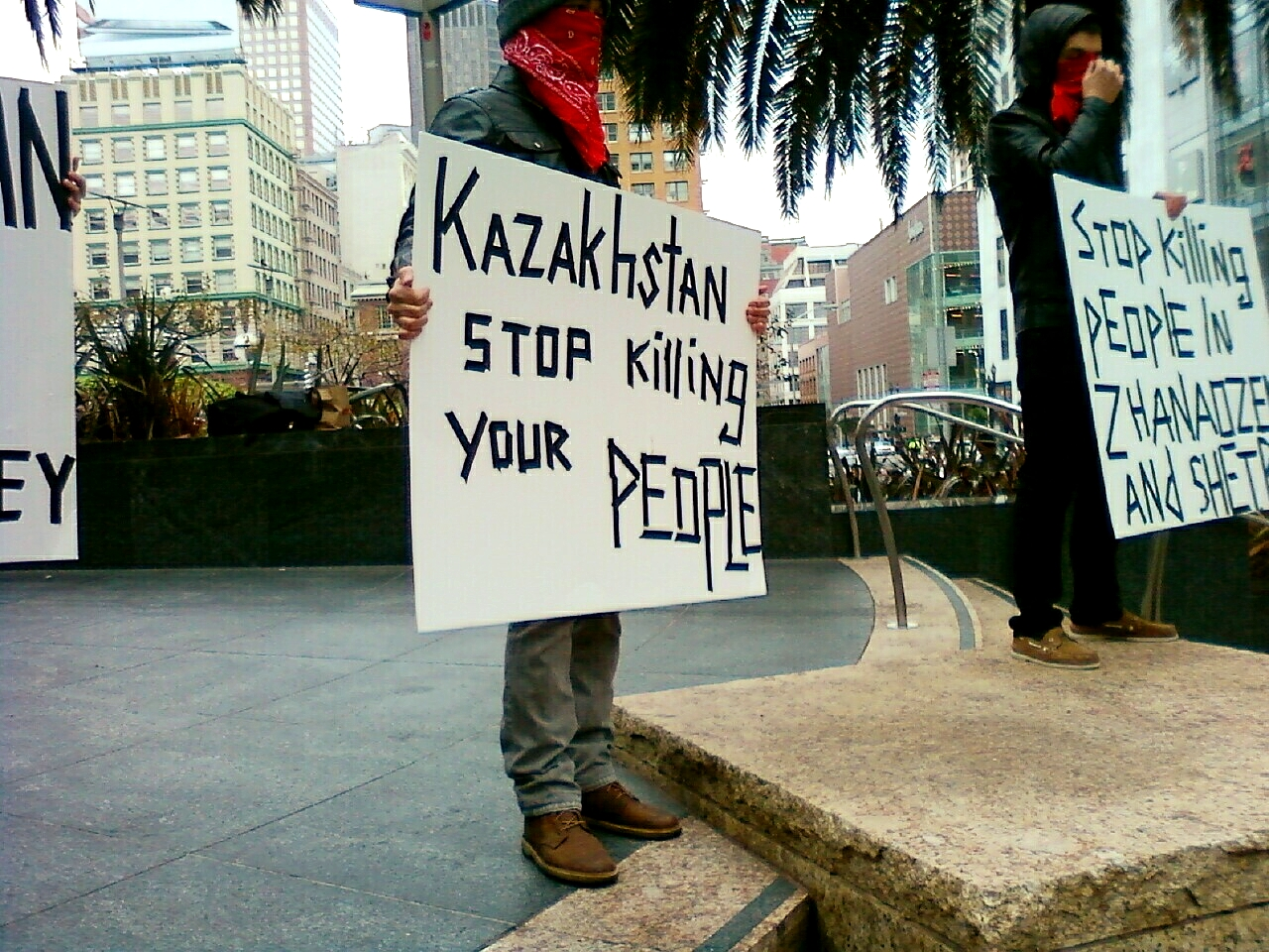 Protesters at Union Square in San Francisco holding a demonstration criticizing the government of Kazakhstan's response to the recent 2011 Mangystau riots.